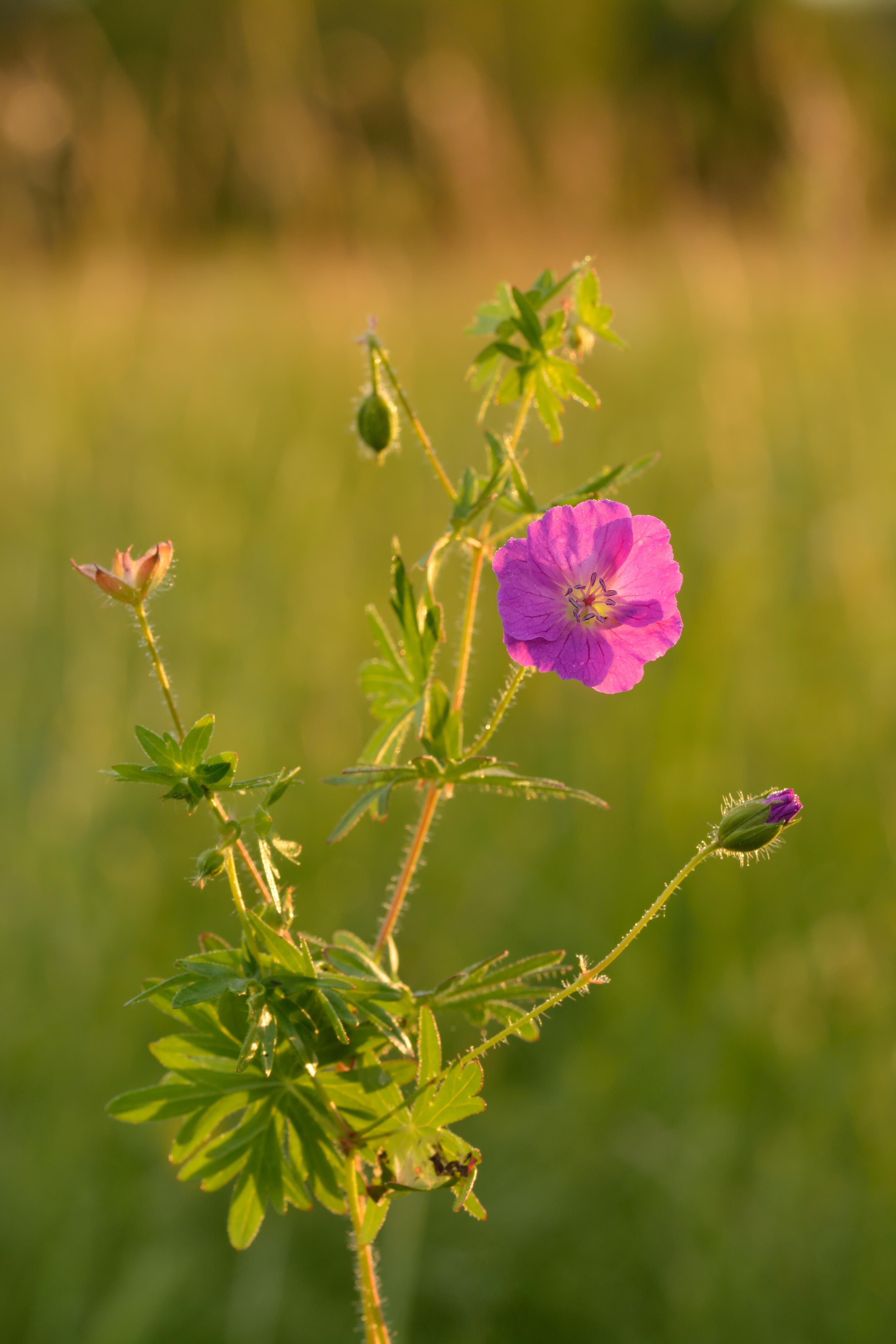 Bloody cranesbill (Geranium sanguineum). Alvar (landform) in Keila, Northwestern Estonia.